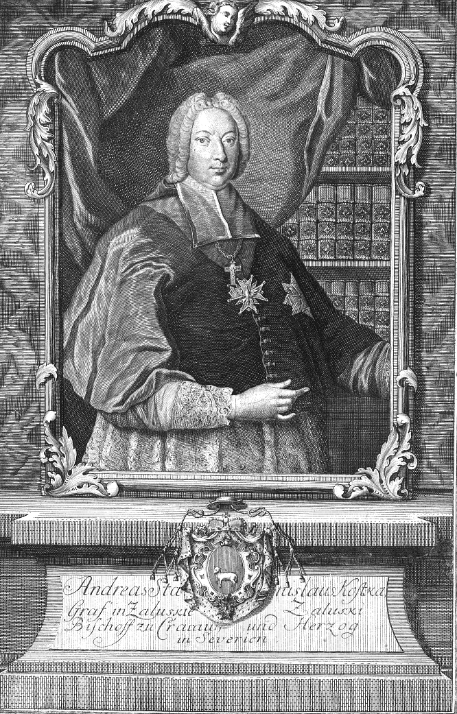 Portrait of Andrzej Stanisław Załuski (1695-1758)